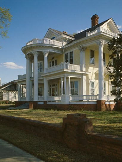 Joseph Banks House, 104 Dantzler Street, Saint Matthews (Calhoun County, South Carolina) (cropped)